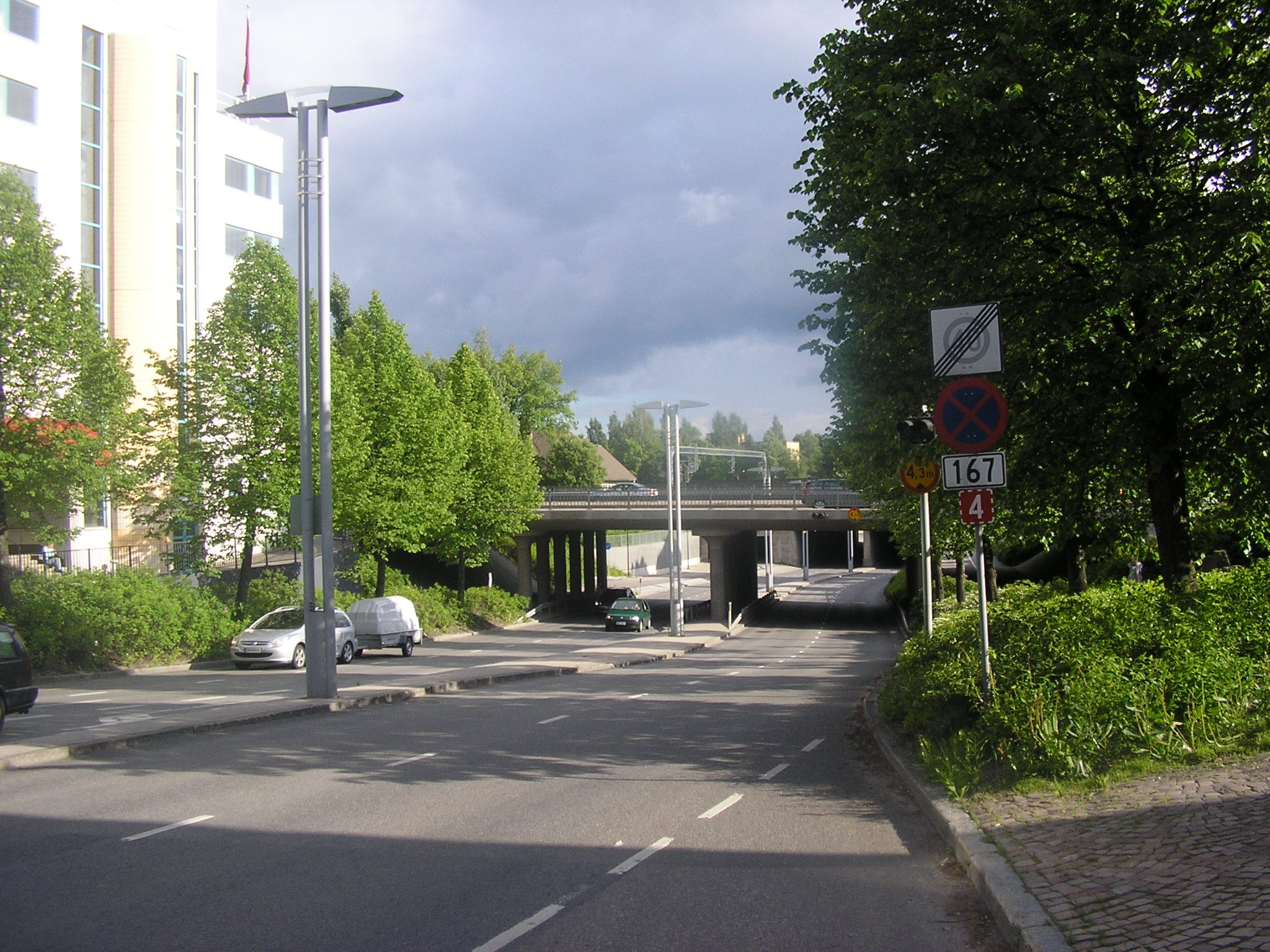 Regional road 167 in Lahti city center, Finland towards south